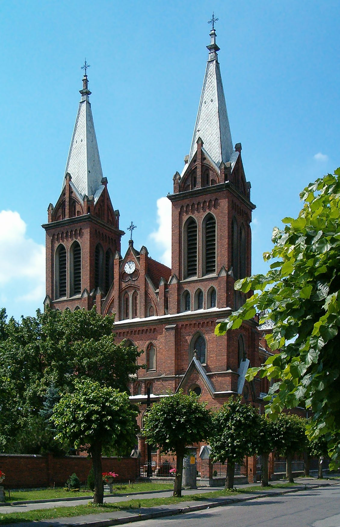 Neogothic Church of Opatówek